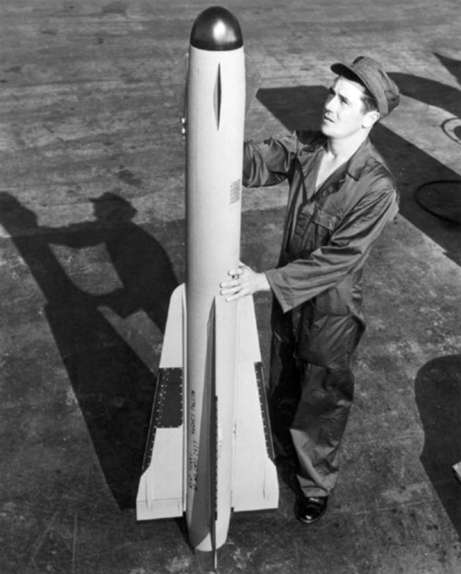 A U.S. Air Force Republic Hughes MX-904 Falcon air-to-air missile. It was later redesignated AAM-A-2/GAR-1/AIM-4.